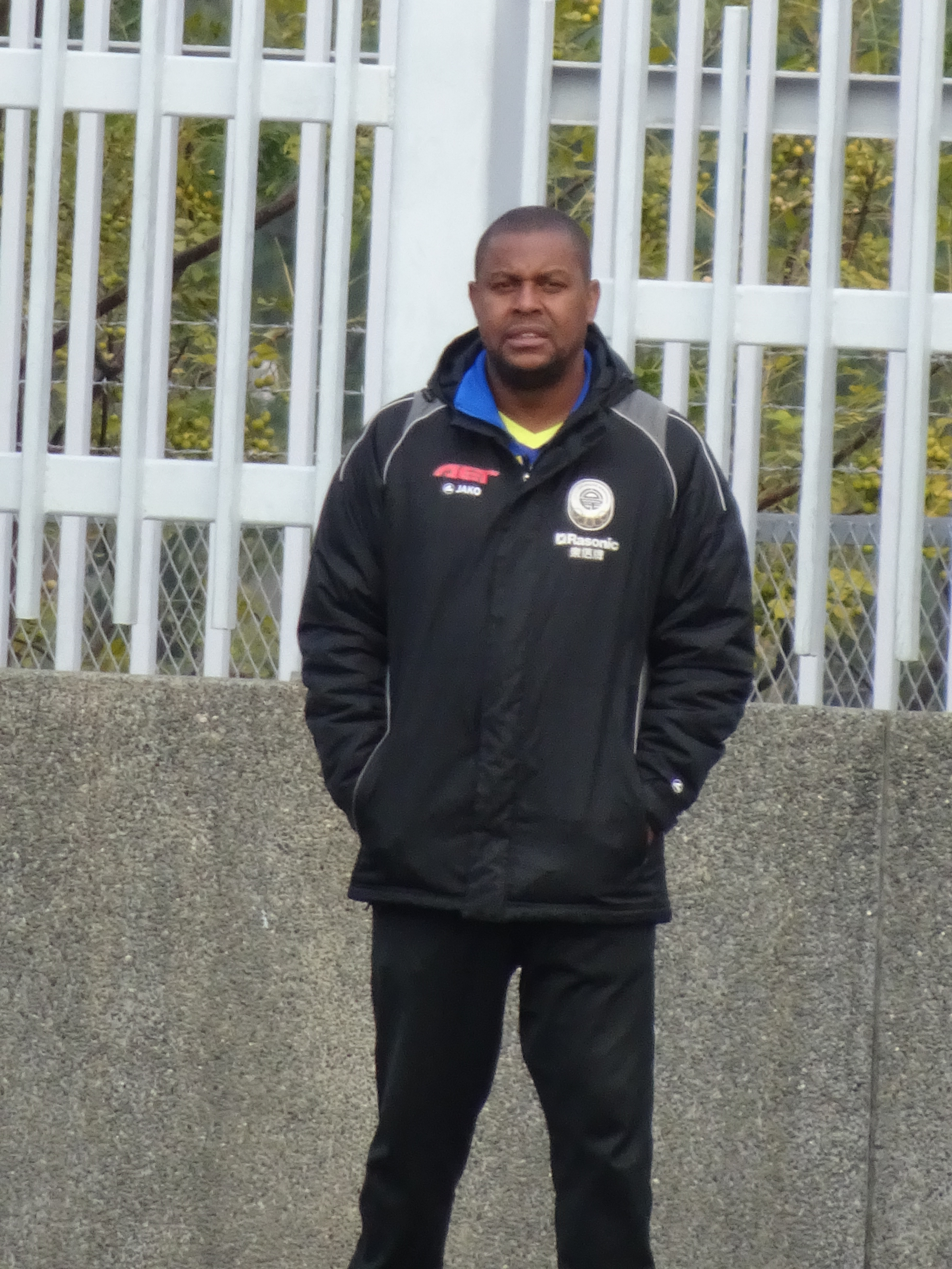 Jorge Claudio Conceiçao Rodriguez (17 Dec 2017, Hong Kong First Division, Citizen vs Sha Tin, Po Kong Village Road Park Pitch #2)